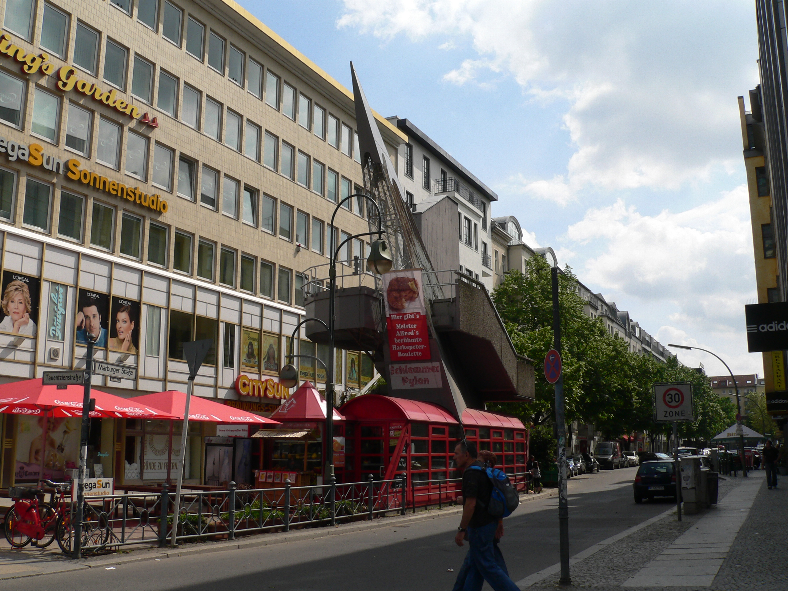 Berlin-Charlottenburg Marburger Straße